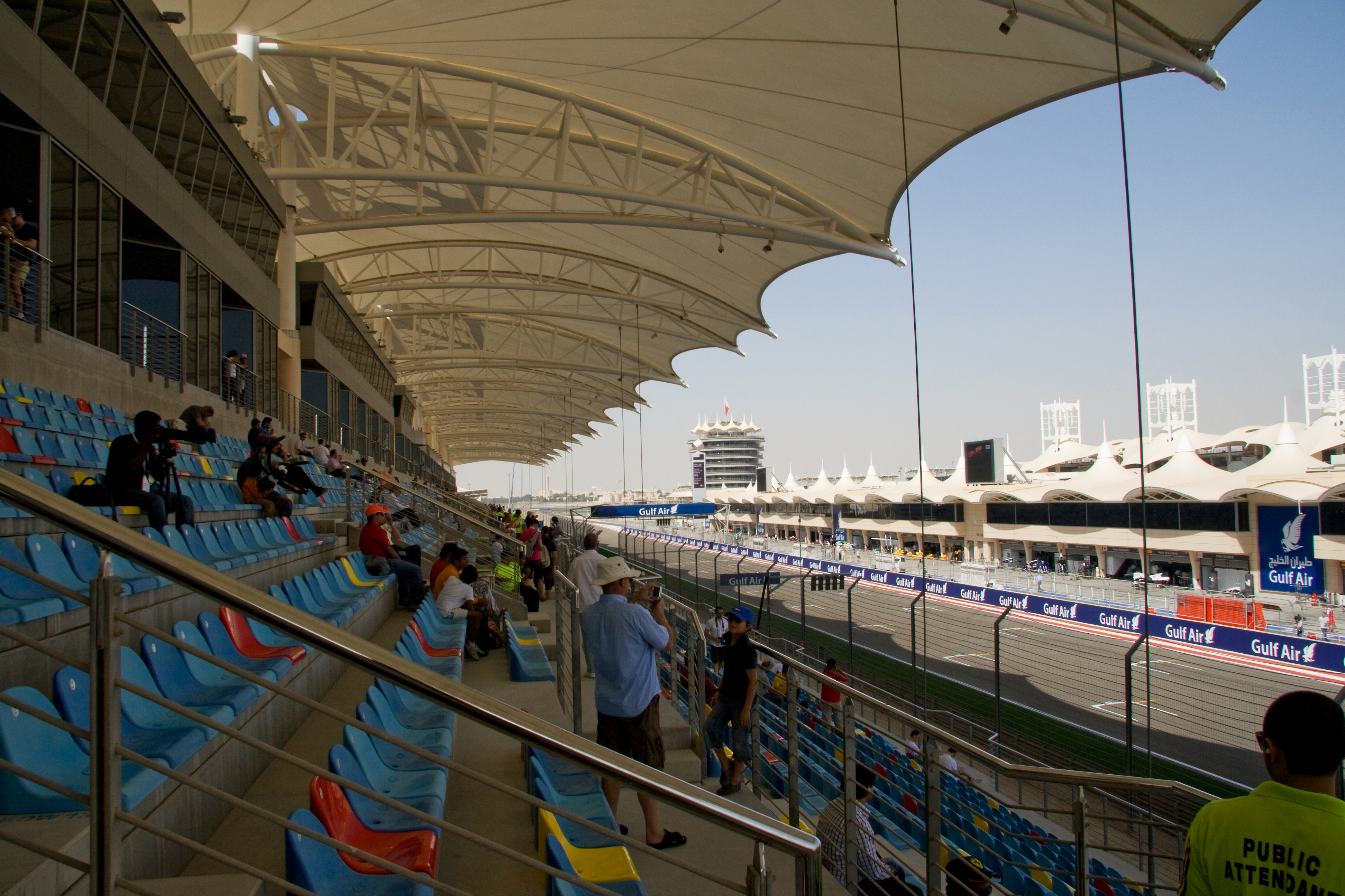 2010 Formula one Bahrain Grand Prix gallery.